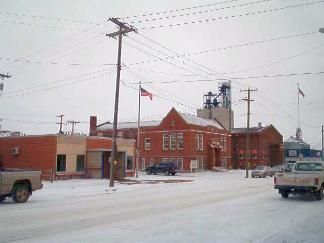 Photo by User:Hephaestos January 1, 2004 GFDL